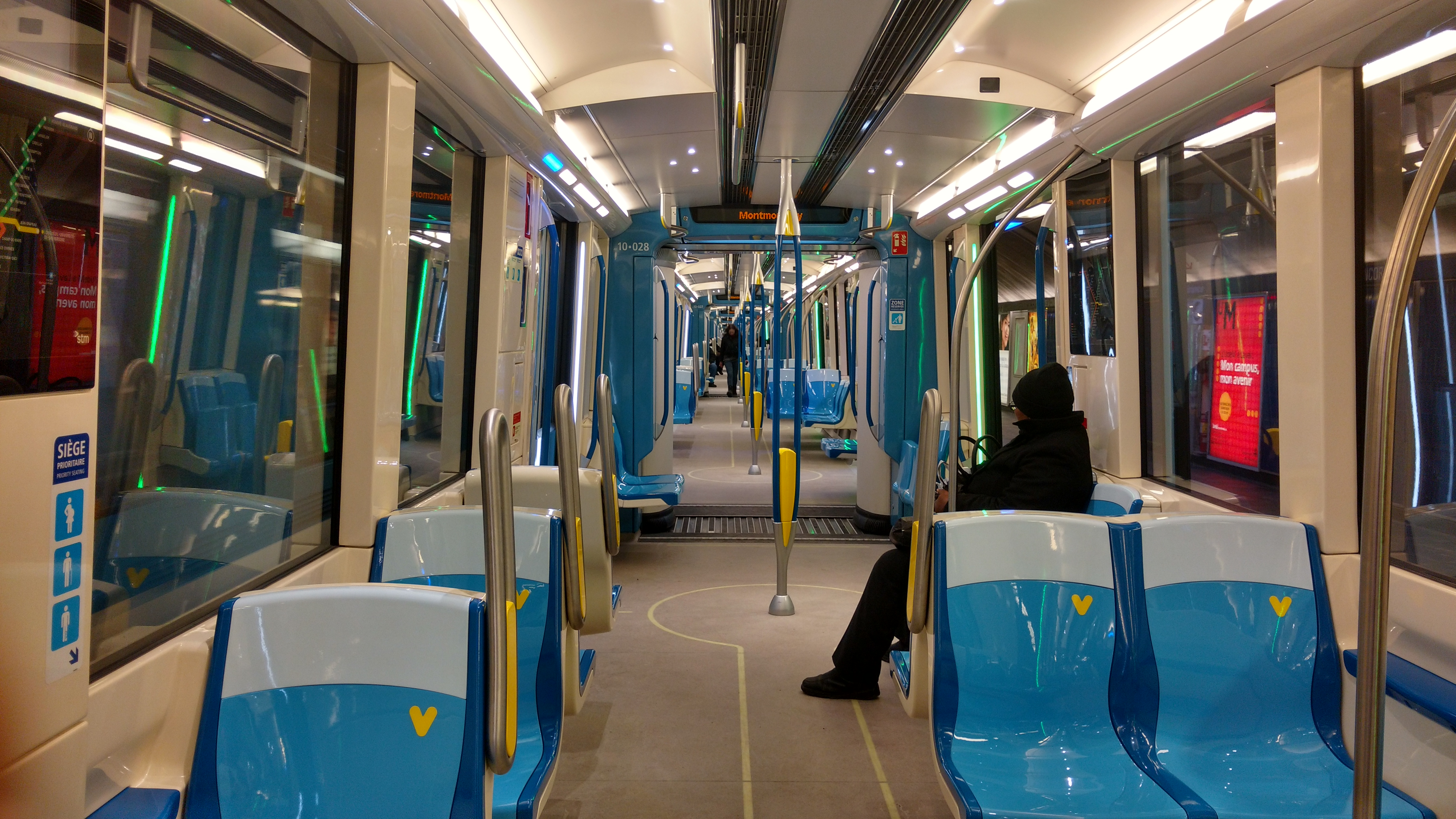 Interior shot of the Azur trains